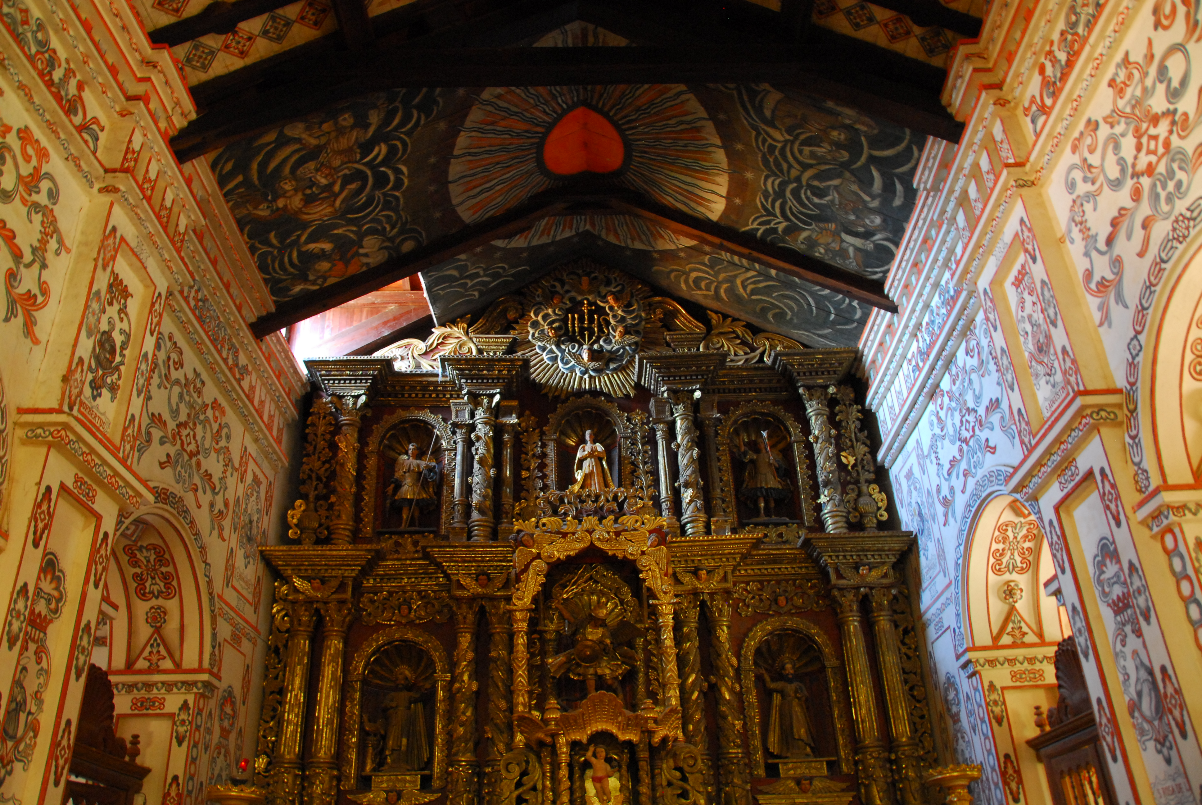 Altar in the church of San Miguel de Velasco, Santa Cruz, Bolivia. Part of the Jesuit Missions of the Chiquitos World Heritage Site.